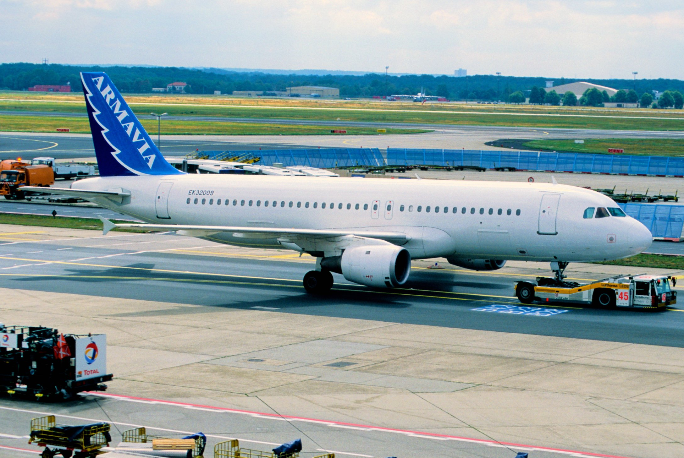 This A320 (c/n 547, first flight June 28, 1995, initial delivery to Ansett Australia as VH-HYO), named after Mesrop Mashtots, operating Armavia Flight 967 crashed into the Black Sea en route from Yerevan to Sochi, a resort town in Russia. The fatal crash was a CFIT accident, killing all 105 passengers and 8 crew on board. The aircraft was completely destroyed by impact with the water. The crash was caused by inadequate control inputs of the Captain following a go-around after the first attempted approach. Contributing factors to the accident were the lack of necessary monitoring of the aircraft descent parameters by the First Officer, and the improper reaction of the crew to the subsequent GPWS warning. Poor visibility and weather contributed to the crash as well.